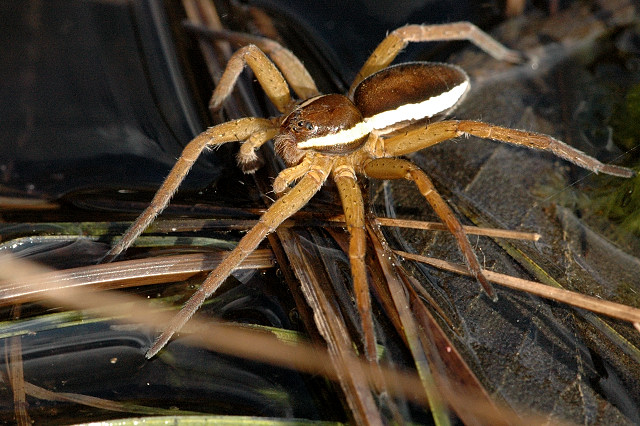 Dolomedes fimbriatus from Commanster, Belgian High Ardennes .